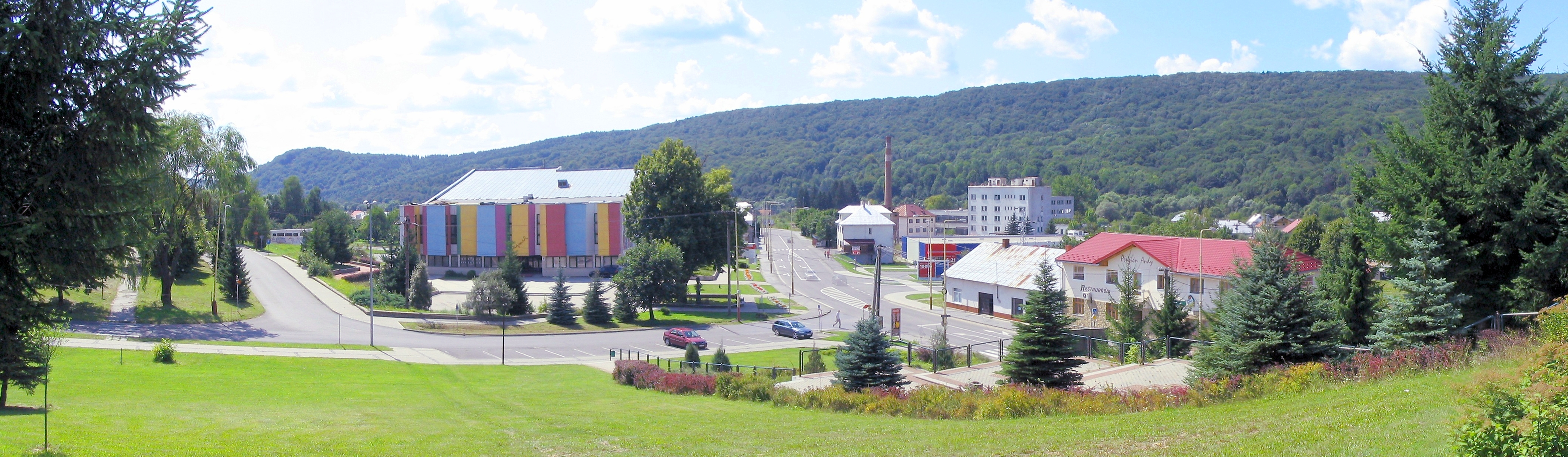 View from the church hill at main street of Medzilaborce, Slovakia